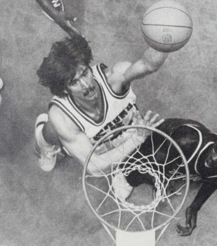 American college basketball player Bob McCurdy od the University of Richmond Spiders during the 1974-75 NCAA season